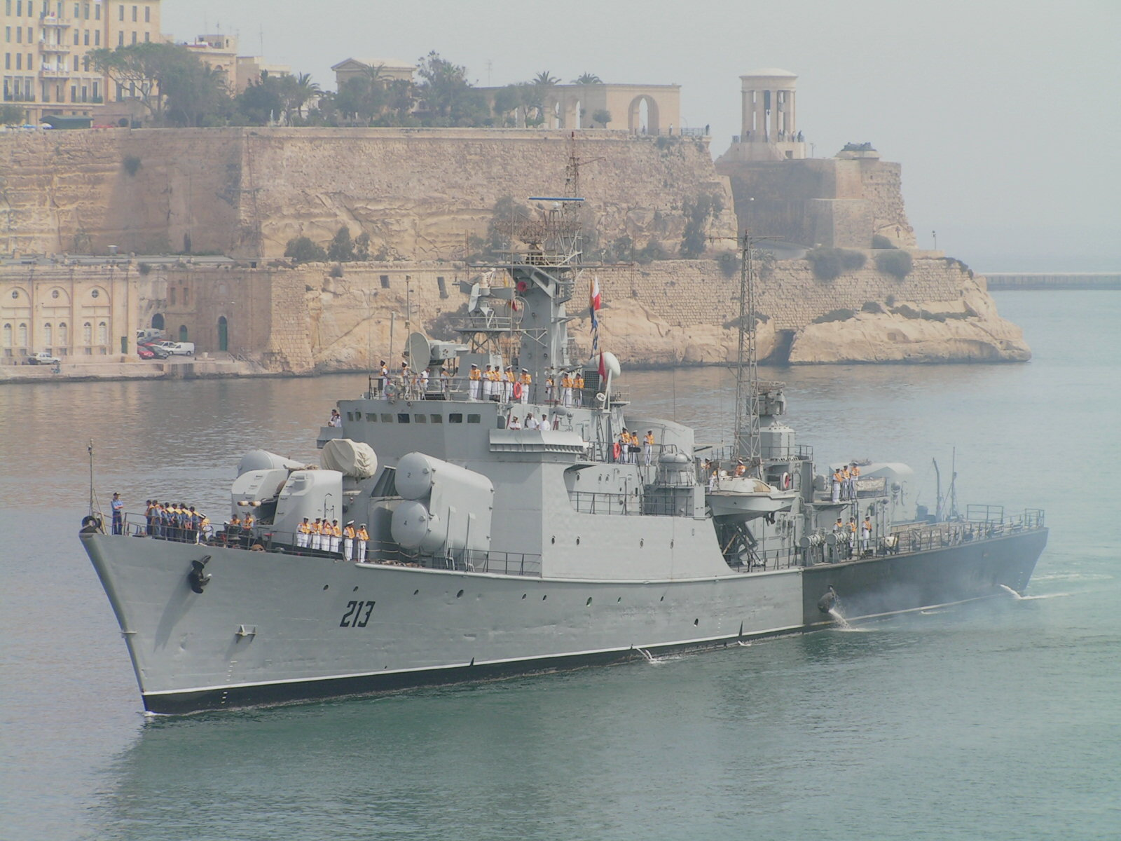 Libyan frigate project 1159-TR Al Ghardabia in Valletta.